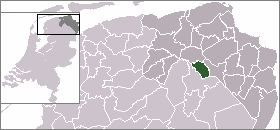 Location of Haren